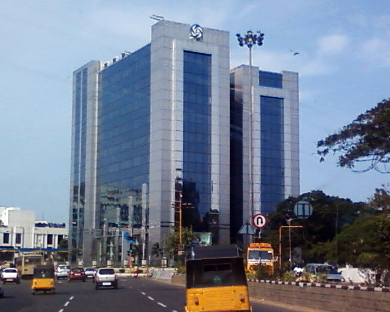 Ashok Leylands Corporate Head Office known as ALCOB in Guindy, Chennai.